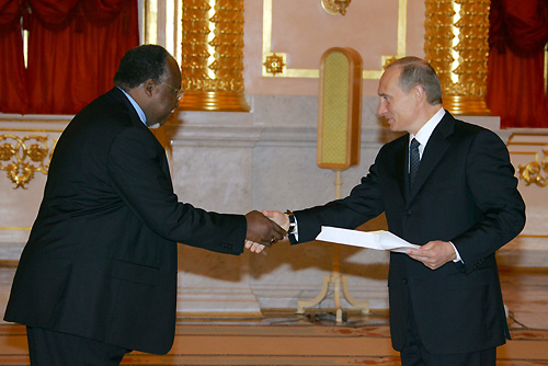 ST ALEXANDER HALL, THE GRAND KREMLIN PALACE. The letter of credential is presented by the Ambassador of the Republic of Kenya, Sospeter Magita Machage.